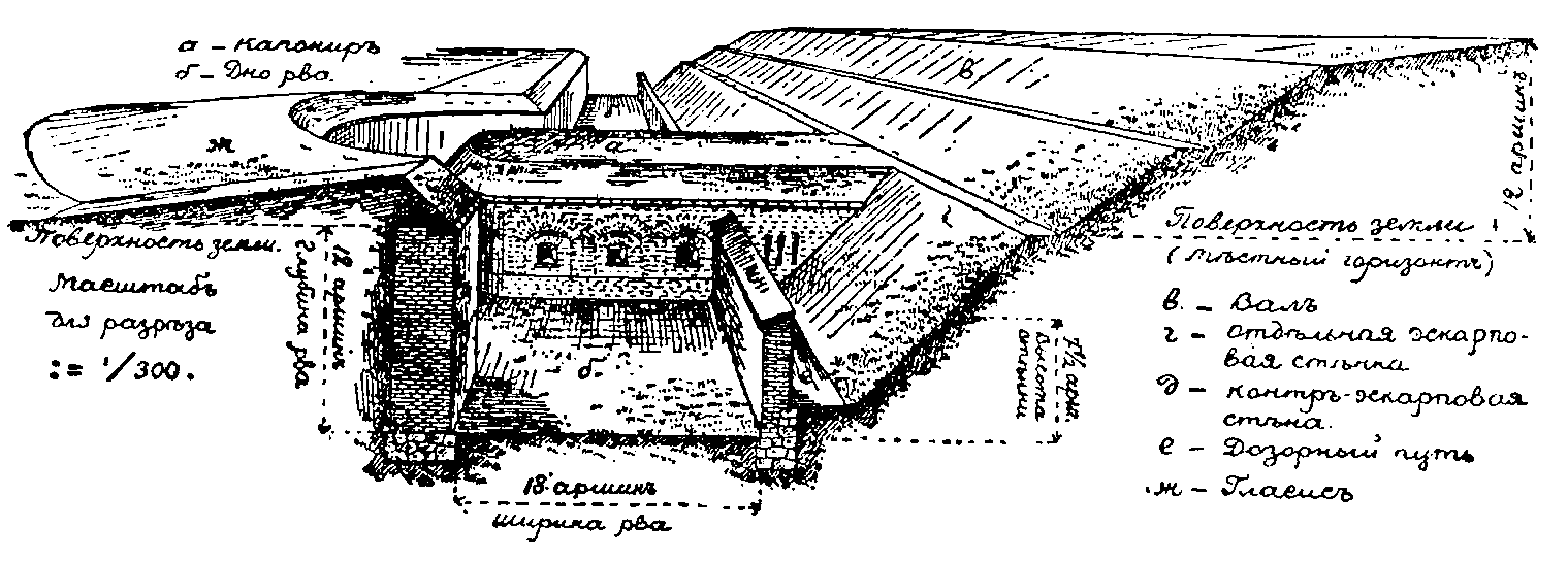 Caponier